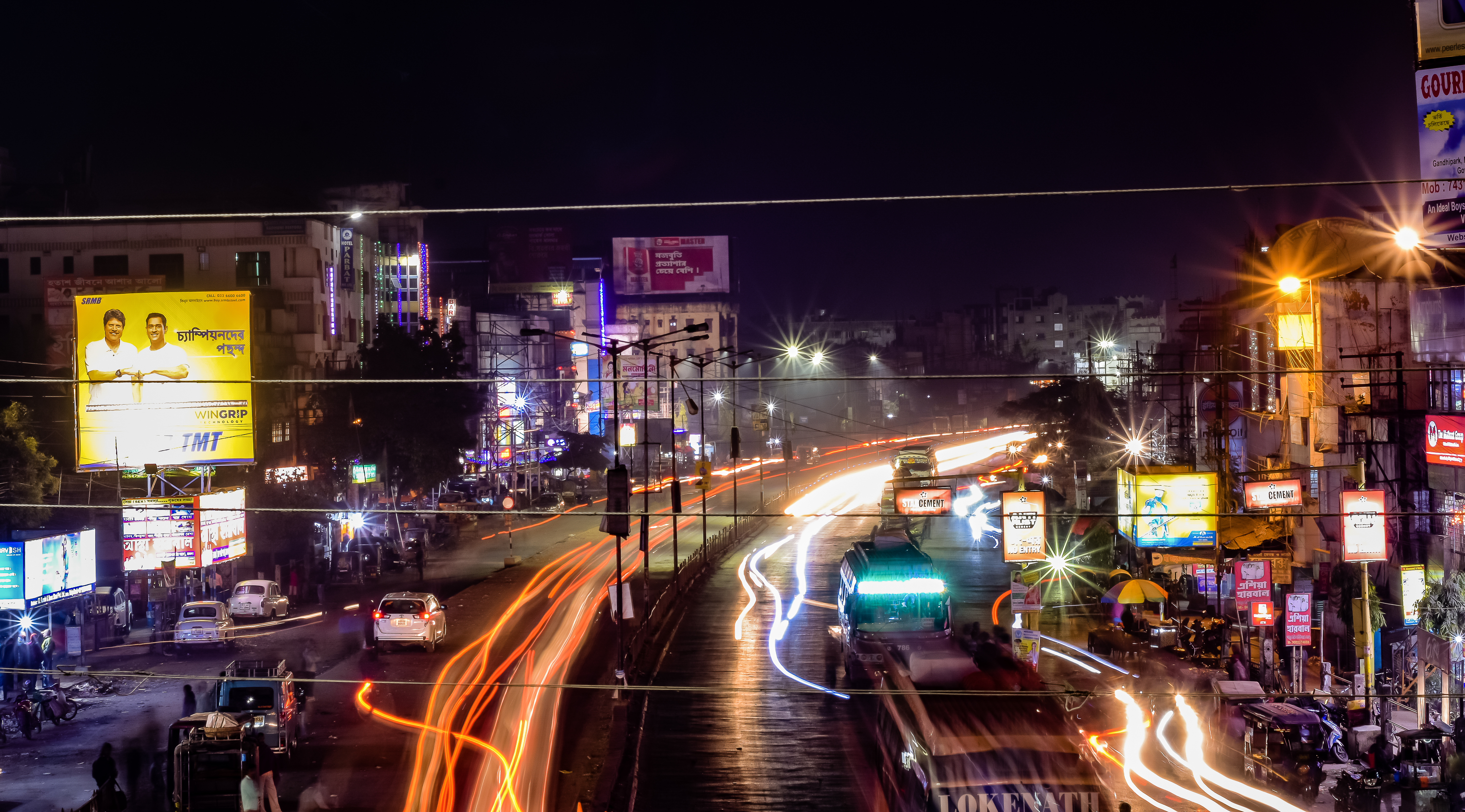 A picture of busy Rathbari Junction of Malda Town